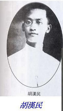 Hu Han-ming. 胡漢民